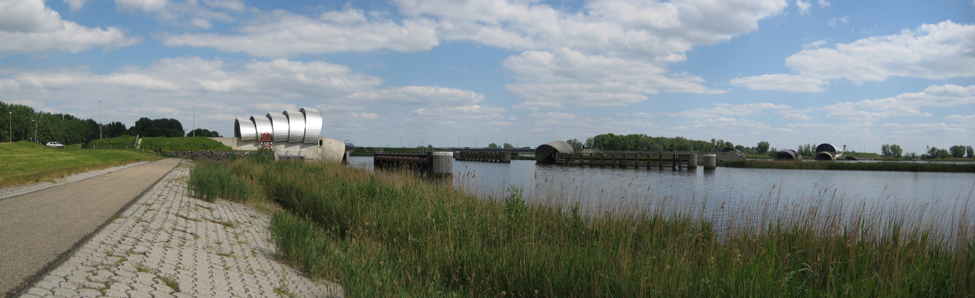 De "Balgstuw" and Ramspol Bridge, Ramspol, Zwarte Water, connecting the Dutch provinces of Overijssel en Flevoland